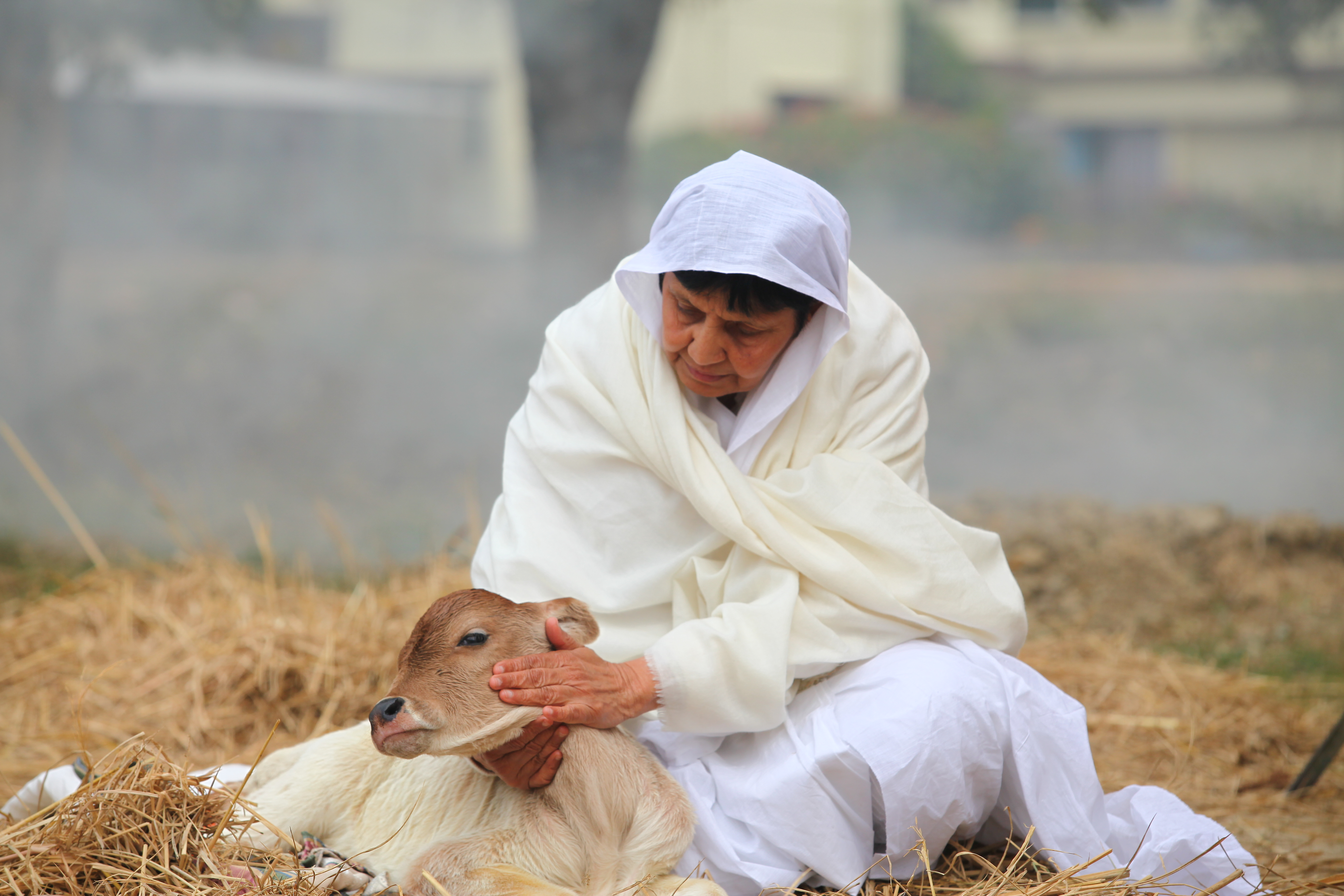 Acharya Shri Chandanaji's love for nature - a part of her personality.